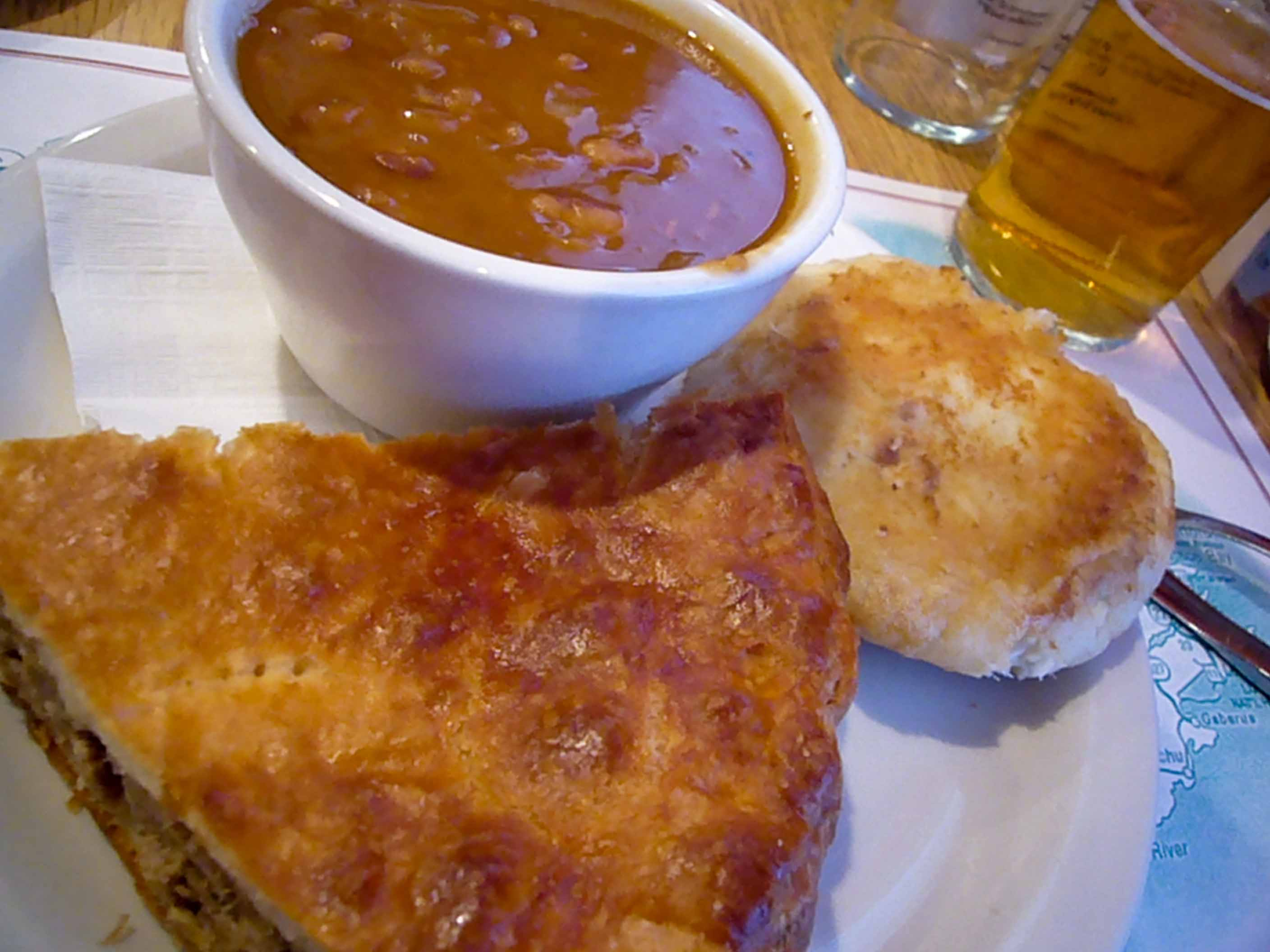 home made meat pie, baked beans, and fish cake in cheticamp